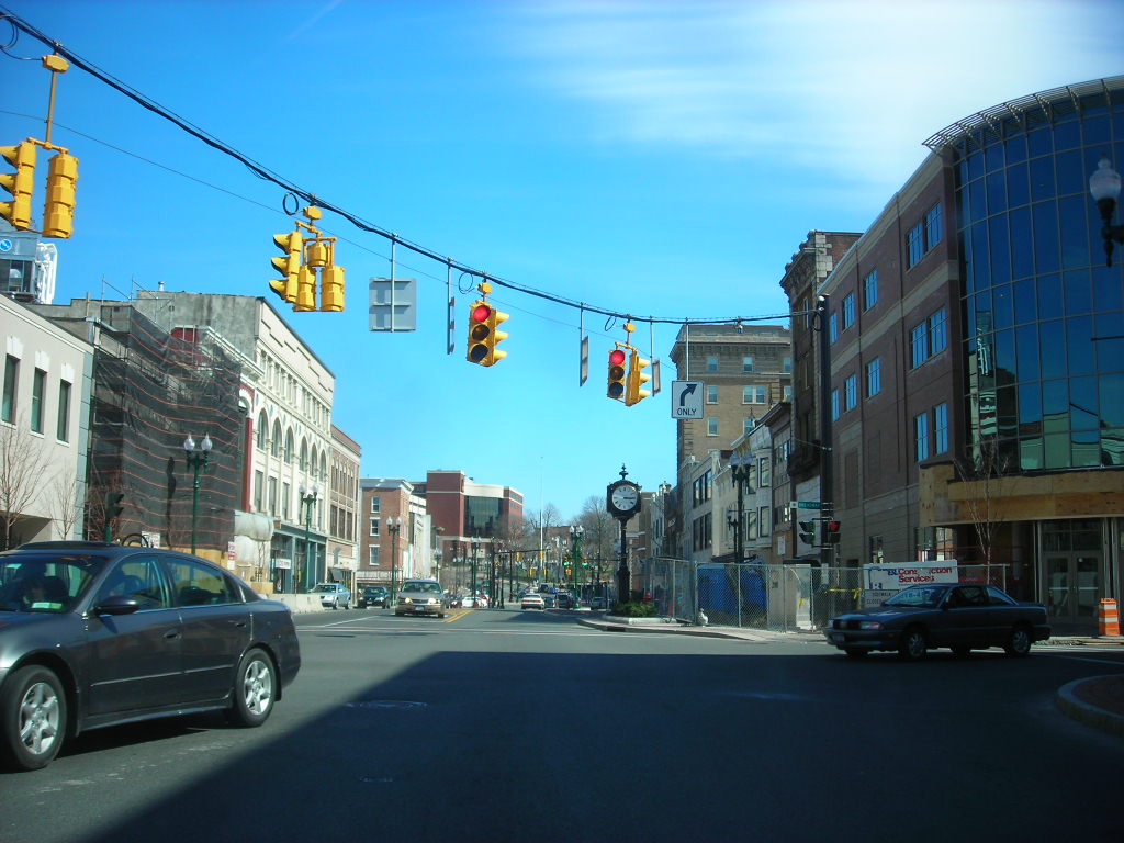 Downtown Schenectady looking east on State Street from intersection with Broadway in 2007.